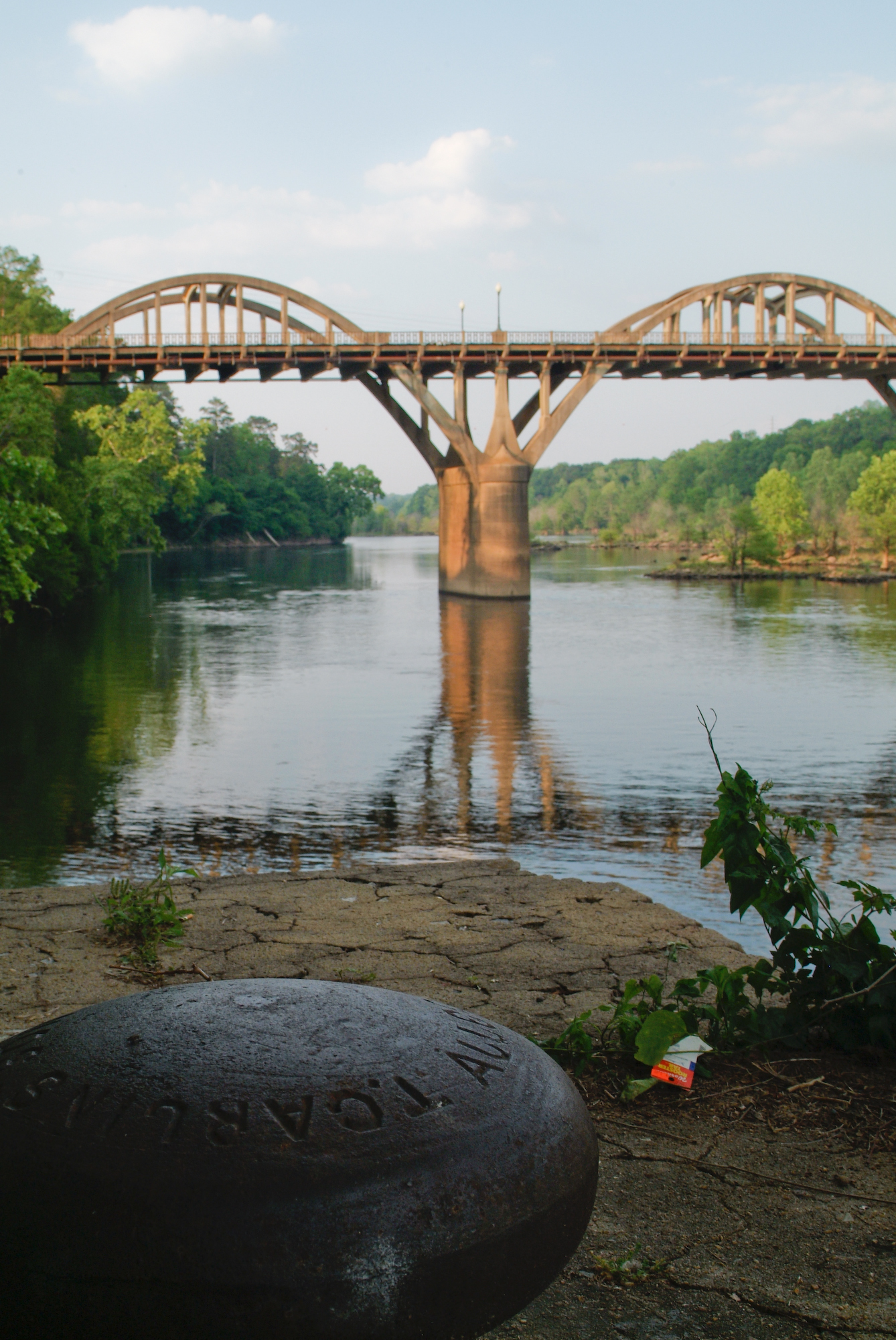 The Black Warrior River, Alabama